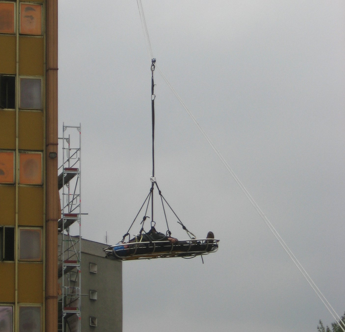 evacuation from high building using Tyrolean crossing